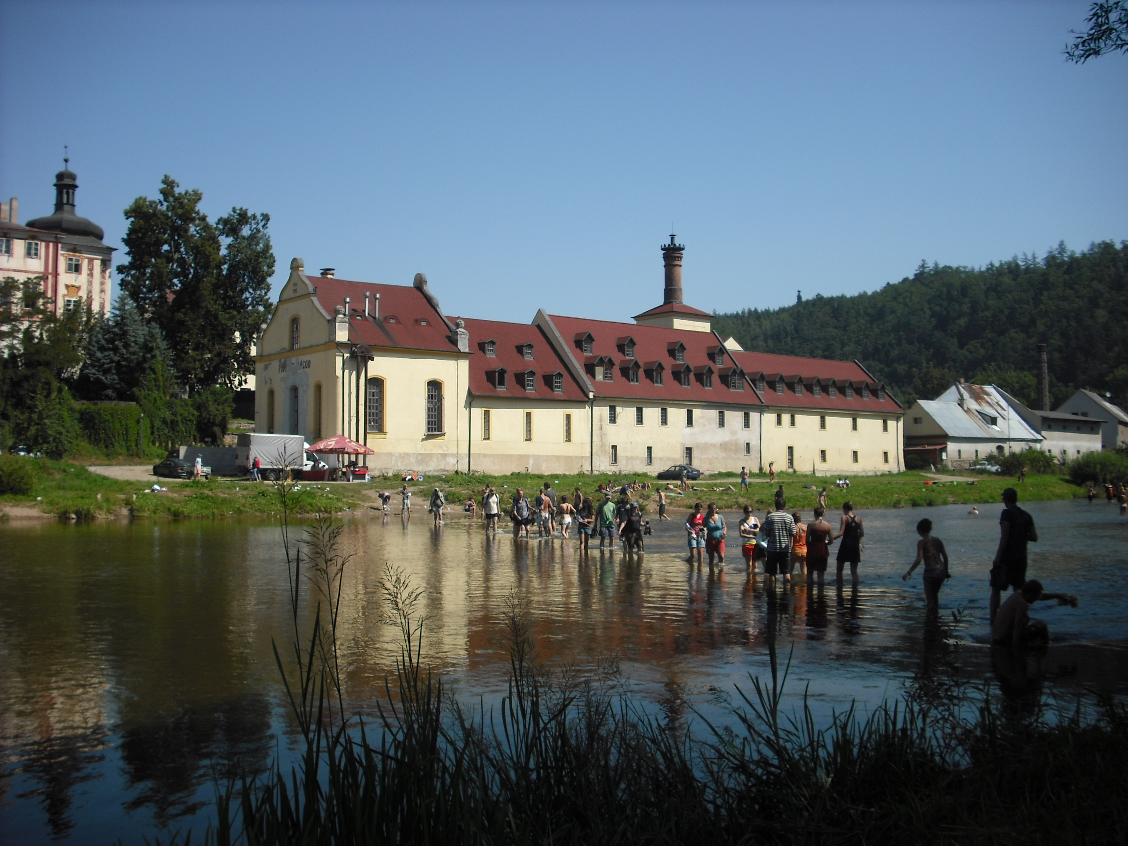 Ford in Kácov, Czech Republic